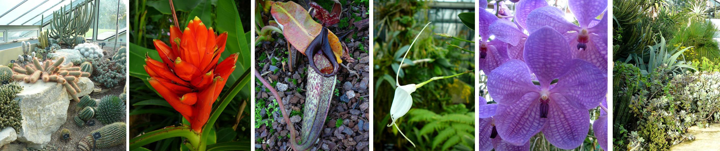 Princess of Wales Conservatory Panorama